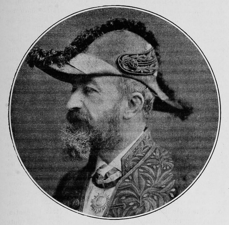 Photograph of Achille Müntz included in A.-Ch. Girard's posthumous tribute to Müntz in the "Annales de l'Institut national agronomique"